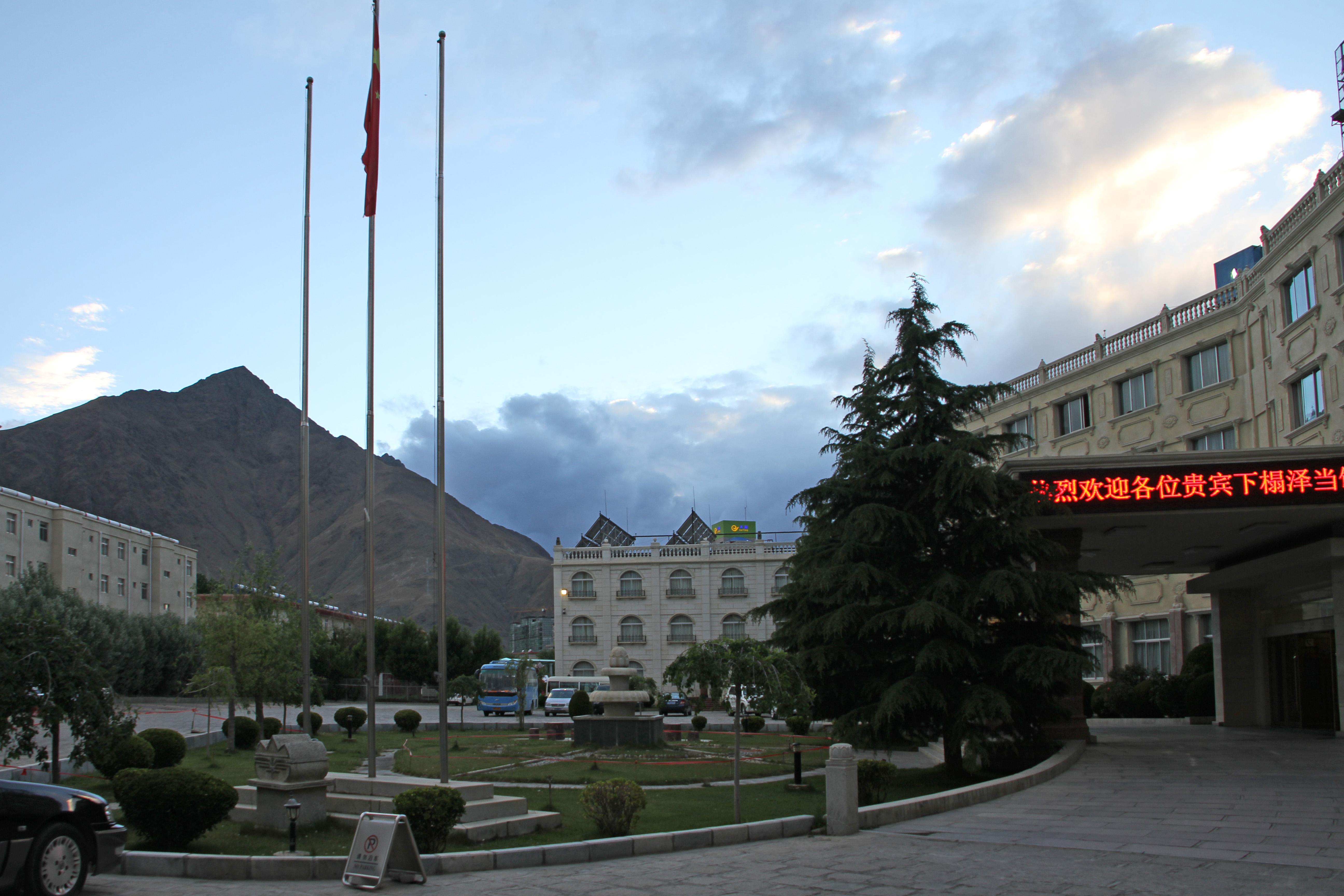 Tsetang, Nedong county, Shannon prefecture, in Tibet